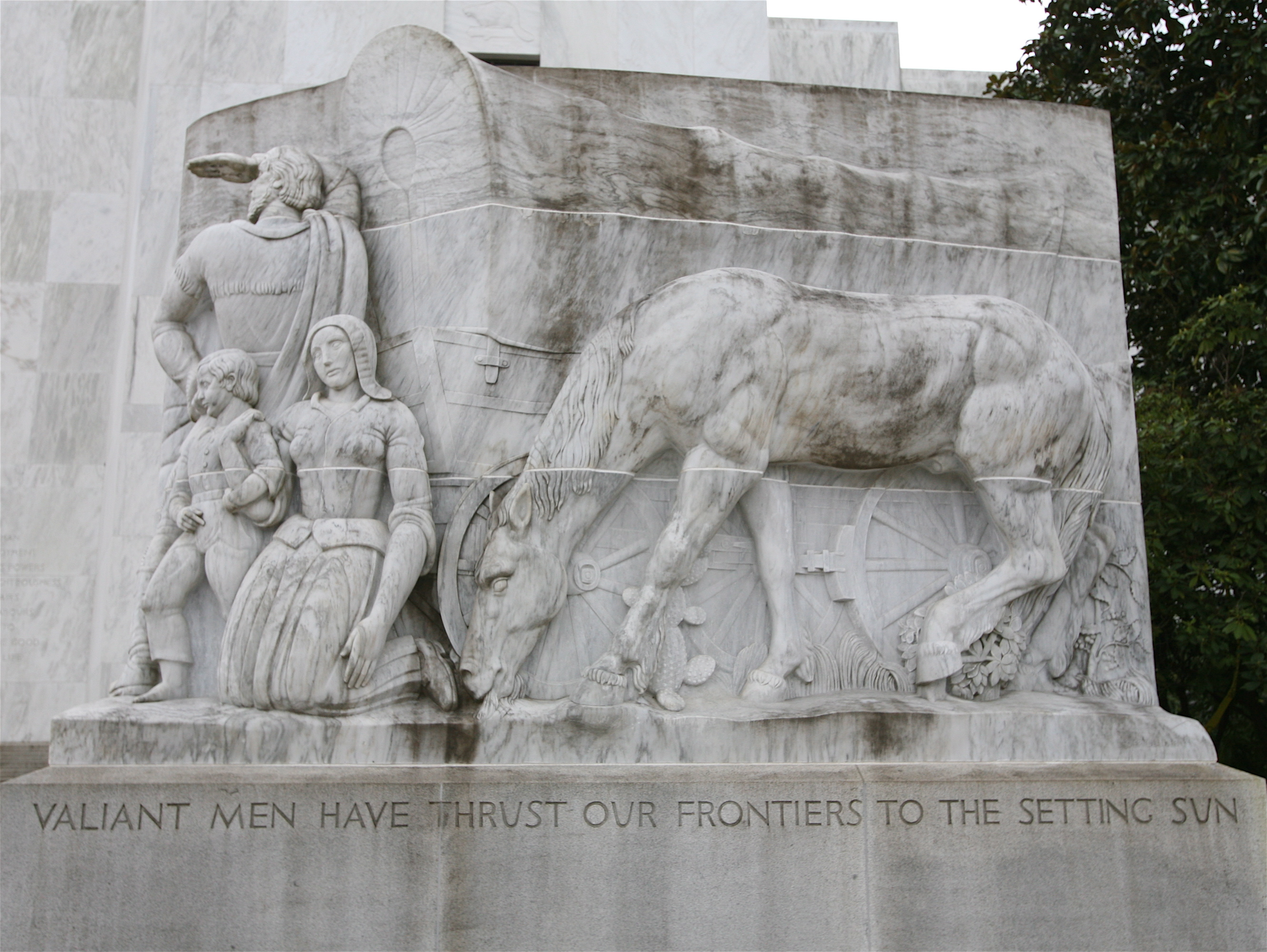 Bas relief at the Oregon State Capitol, on the right side of the stairs to the main entrance. It features pioneers and covered wagons, and is titled as Valiant Men Have Thrust Our Frontiers to the Setting Sun.